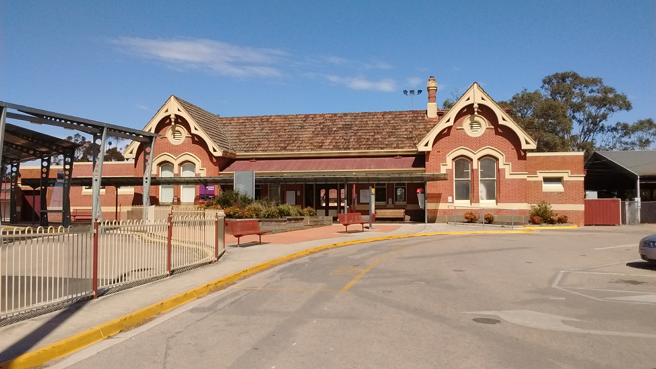 Bairnsdale railway station, Victoria.